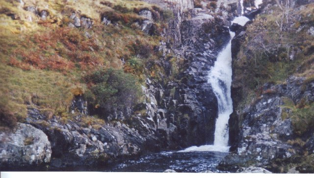 The Forces Swindale Beck. Mosedale Beck becomes Swindale Beck as it approaches lovely Swindale. The Forces are a fine series of Waterfalls rarely visited.